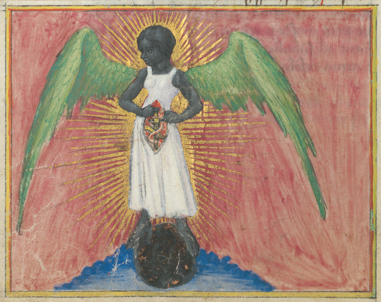 Aurora Consurgens medieval manuscript, exemplar from Zürich Zentralbibliothek, Ms. Rh. 172 Parchemin, 100 ff., 20.4 x 13.9 cm, Saint Gall, XVe siècle, latin 10.5076/e-codices-zbz-Ms-Rh-0172 Downloaded from the above site, cropped by GAllegre folio 29 verso - 60